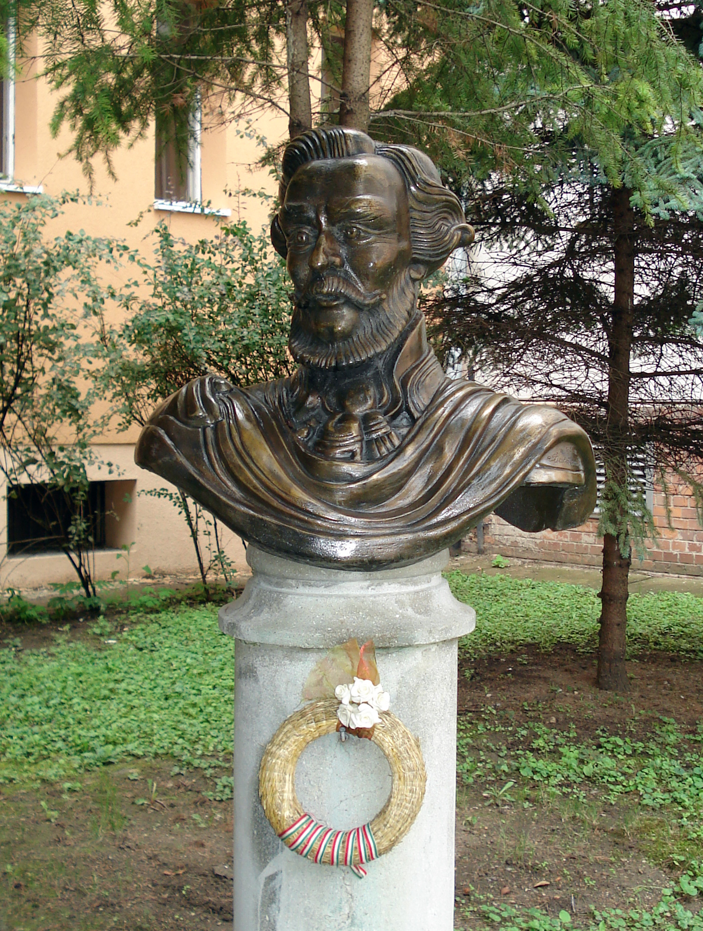 Klára Balatoni: József Eötvös. József Eötvös construction, arts vocational school, Diósgyőr, Miskolc.